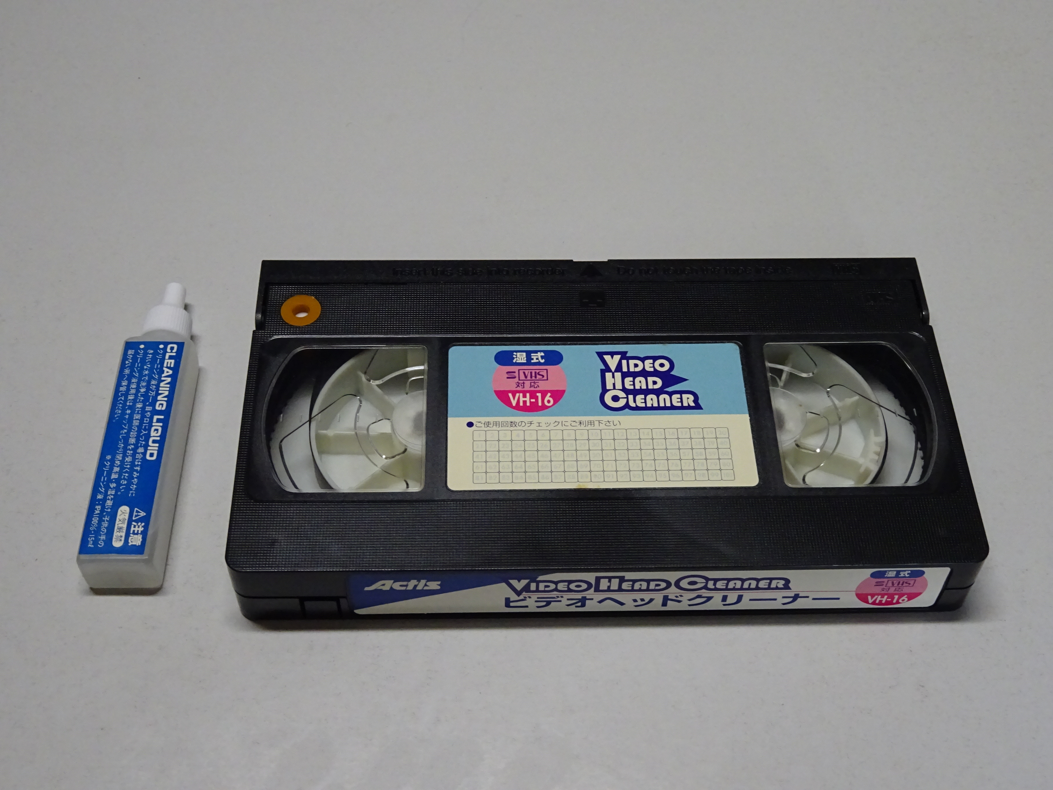 VHS video head cleaner (wet type)